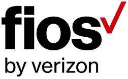 Verizon FiOS logo since September 21st 2015.